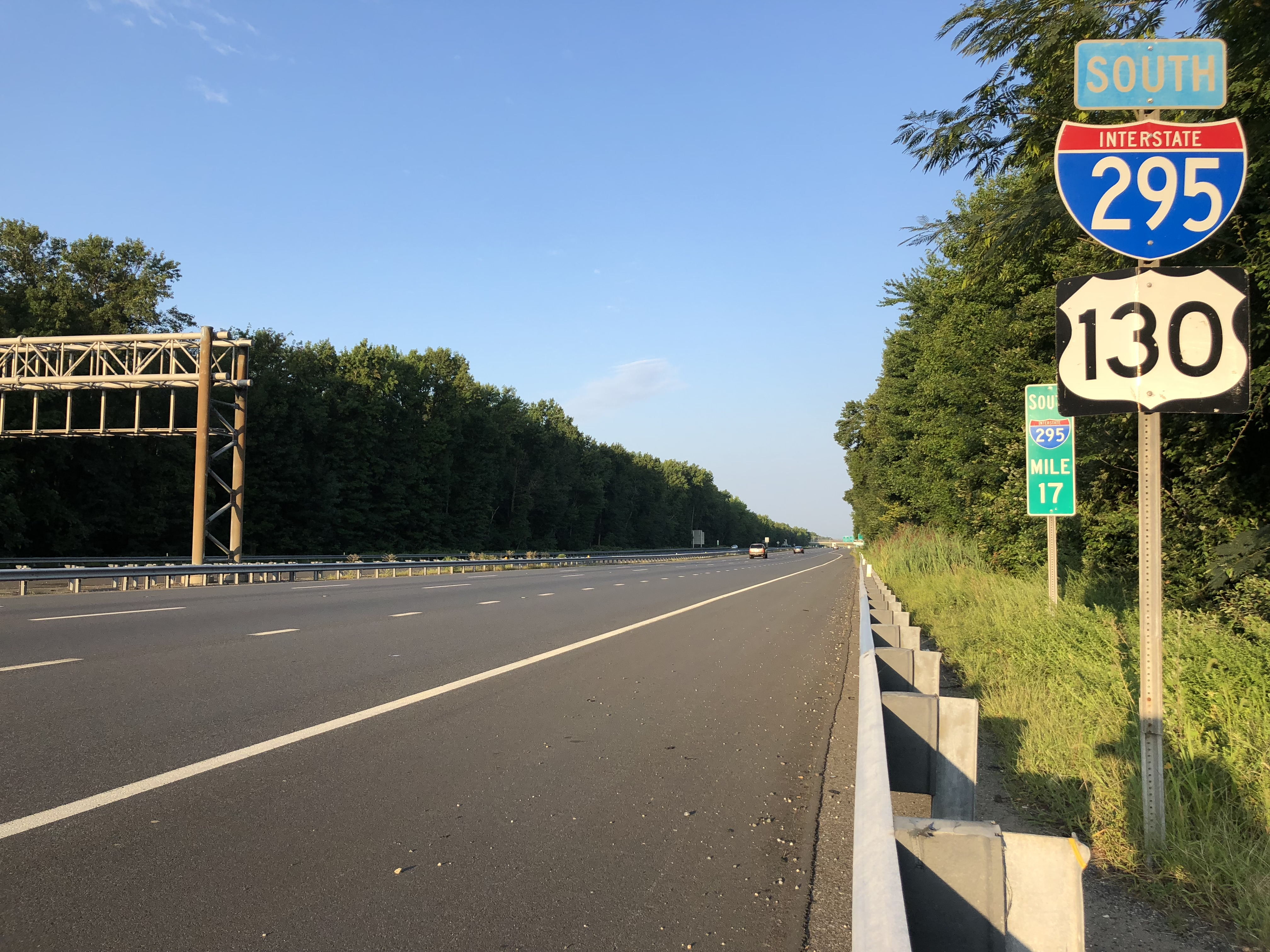 View south along Interstate 295 and U.S. Route 130 just south of Exit 17 in Greenwich Township, Gloucester County, New Jersey